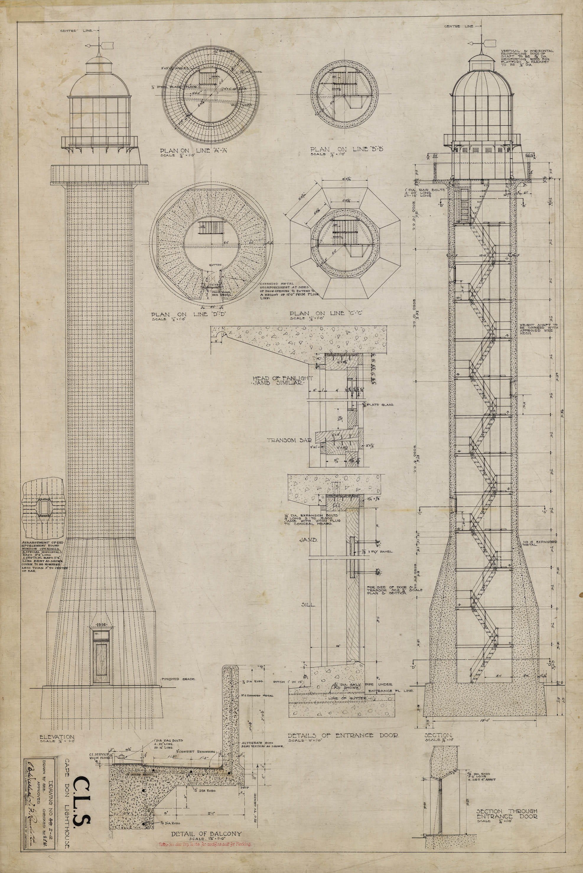 Cape Don Light - Tower sections and plans, 1915